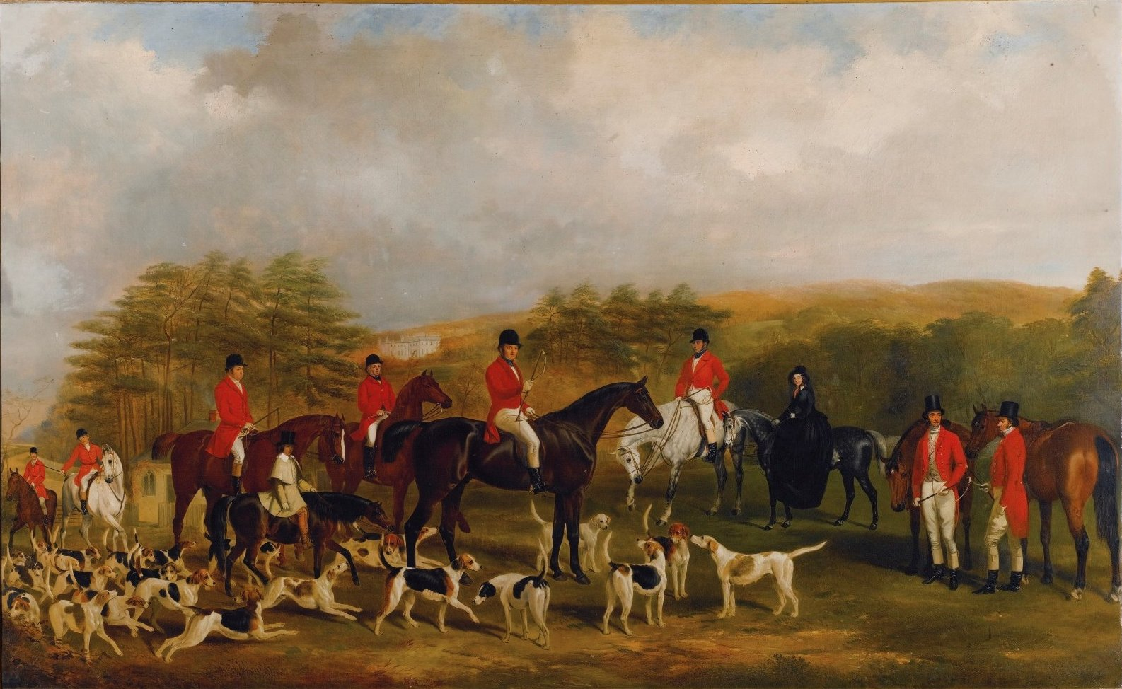 Sir Edmund Antrobus and the Old Surrey Fox Hounds at the Foot of Addington Hills by William Barraud. oil on canvas. 144.8 by 236.6 cm